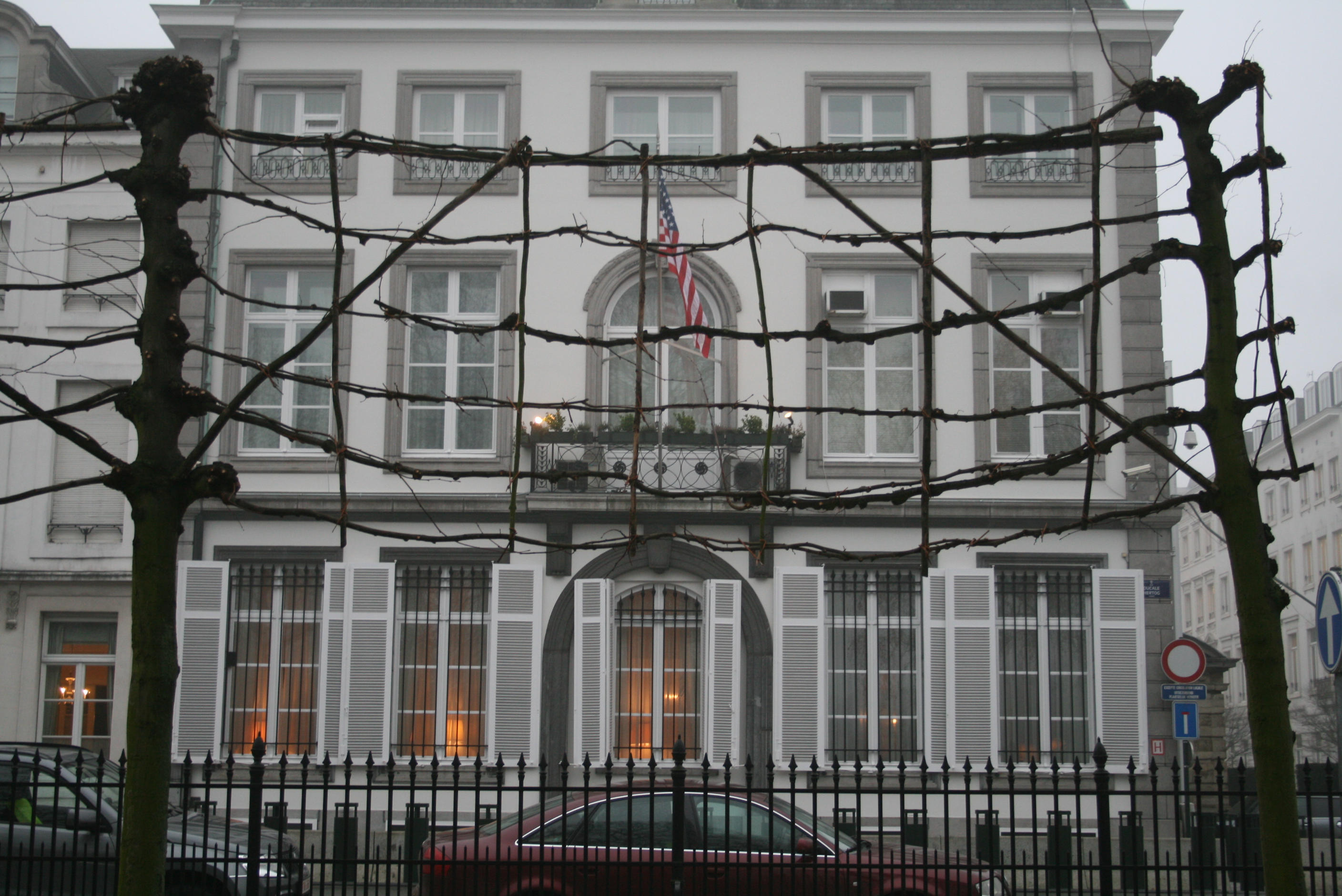 I just wanted to take the flag behind these wooden bars [a Belgian fence, aka an espalier]. Then I noticed some security guards watching me: it is the back of the USA embassy in Bruxelles, Belgium